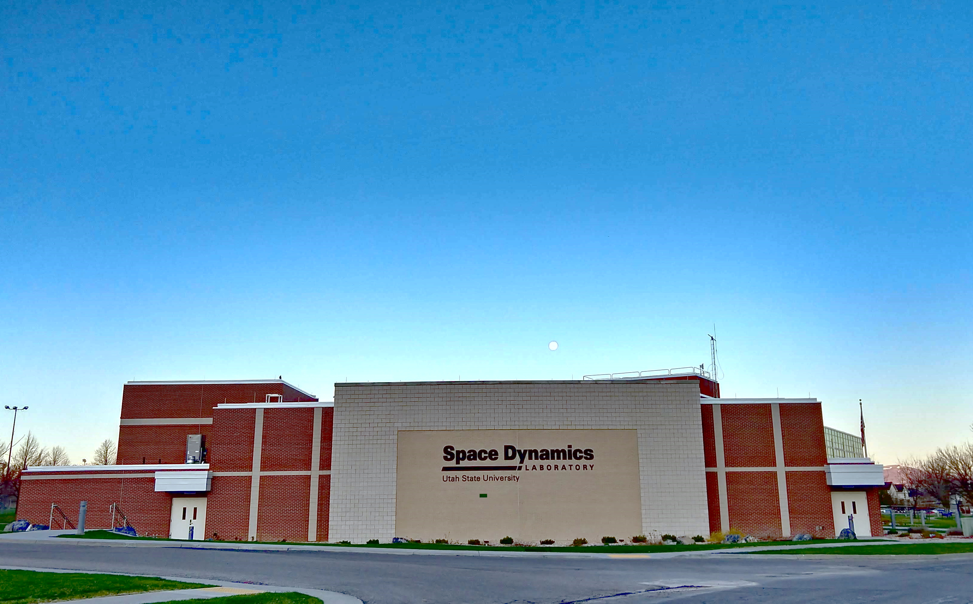 Looking west at the Space Dynamics Laboratory Auditorium building in the morning. April 9, 2020. The moon is visible just above the top of the building.